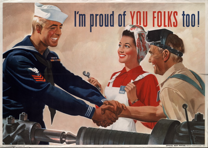 Artist: Jon Whitcomb. For the U.S. Navy. 1944. Items produced by/for the US government are not subject to copyright laws -- they are free for use.